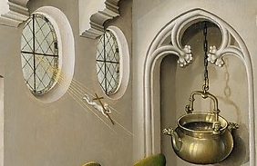 Mérode Altarpiece, detail with beam of light representing the Holy Spirit